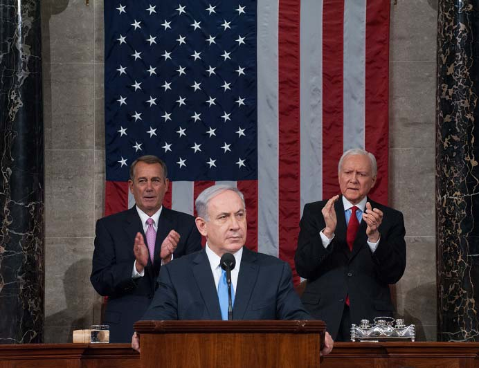 Israeli Prime Minister Benjamin Netanyahu addressed a joint session of Congress on Tuesday, March 3, 2015